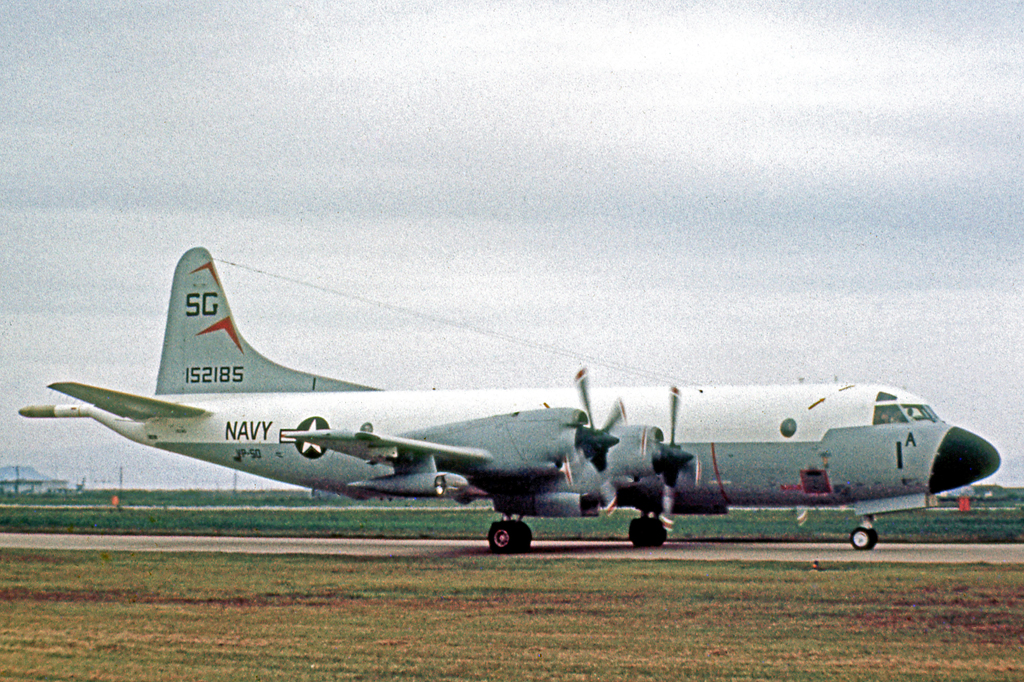 A U.S. Navy Lockheed P-3A Orion (BuNo 152185) of Patrol Squadron 50 (VP-50) at Naval Air Station Moffett Field, California (USA), in July 1970.